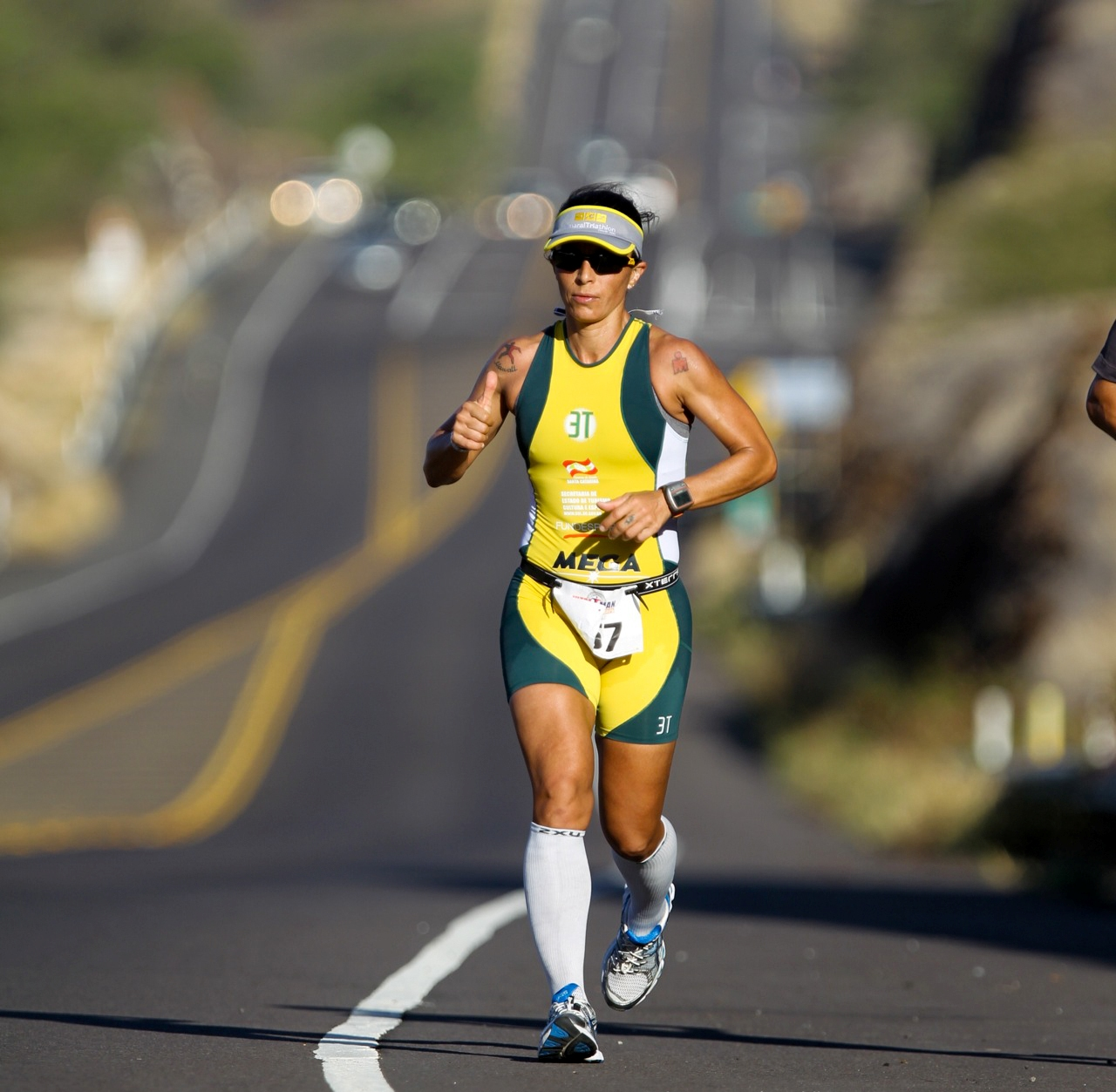 2011 Ultraman World Championships during first half of Stage Three 52.4 mile run, photo by official photographer Rick © Kent